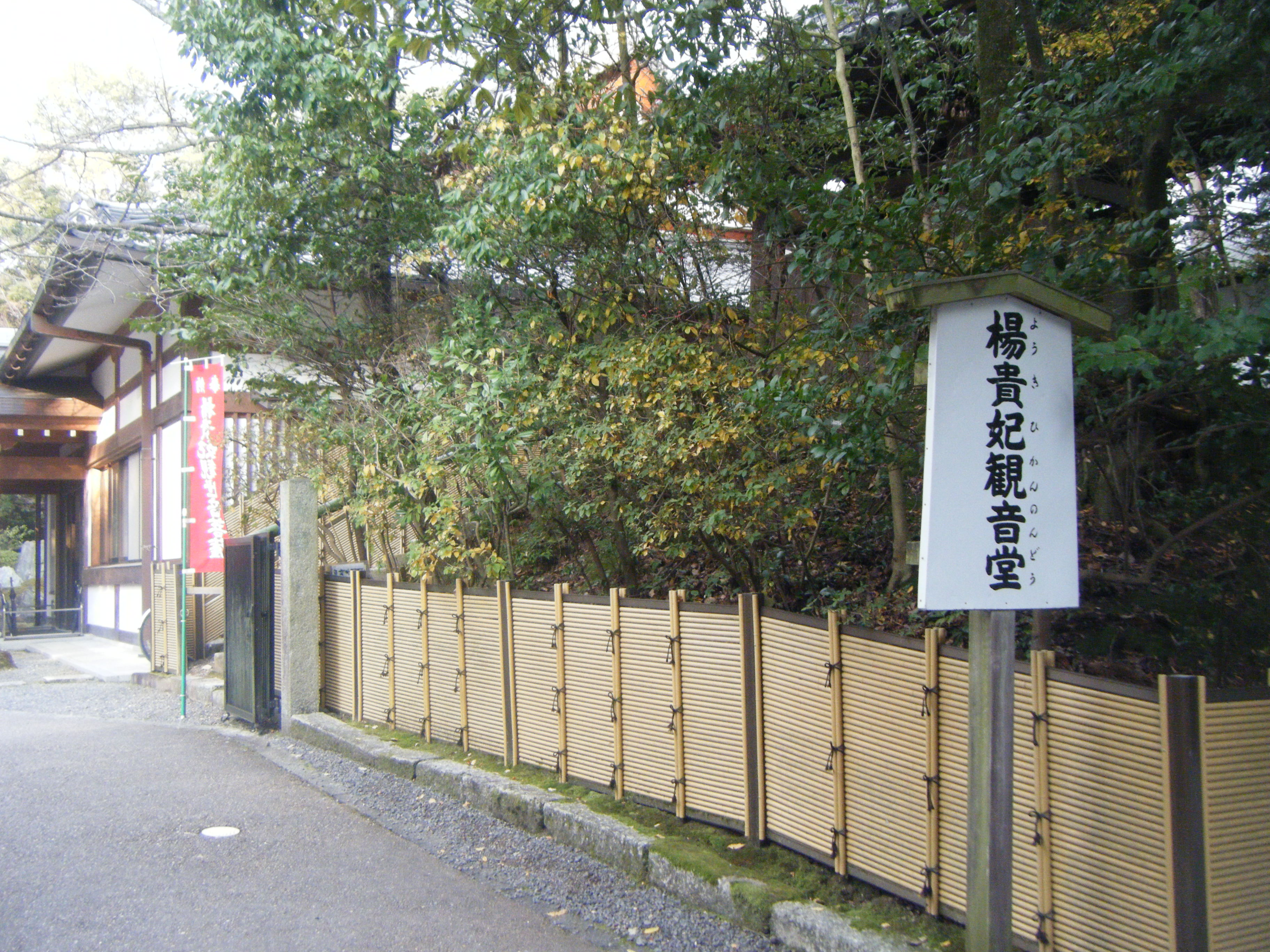 Sennyu-ji in Higashiyama-ku, Kyoto, Kyoto prefecture, Japan. Photos ware taken in Shichifukujin-Festival (Seven Lucky Gods Festival).